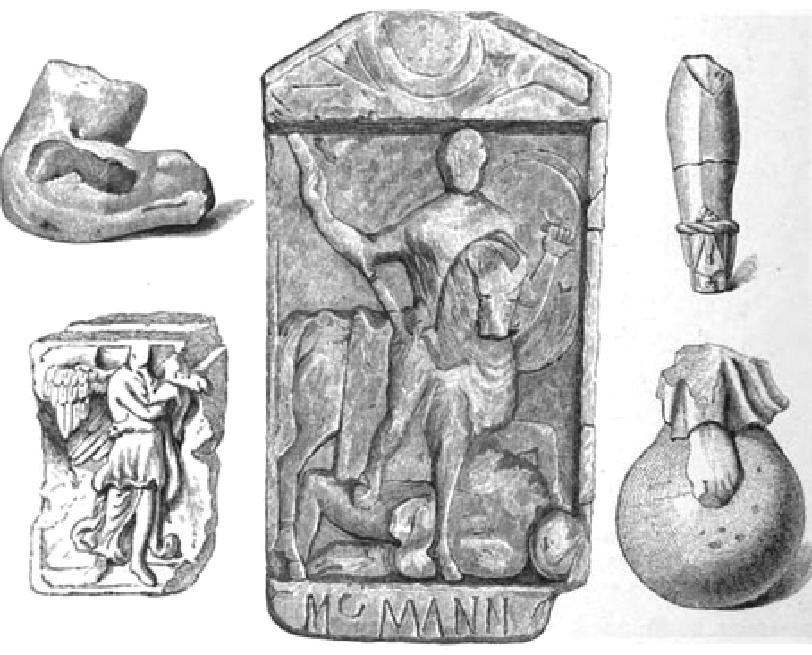 Roman finds from Stanwix (2nd century AD).